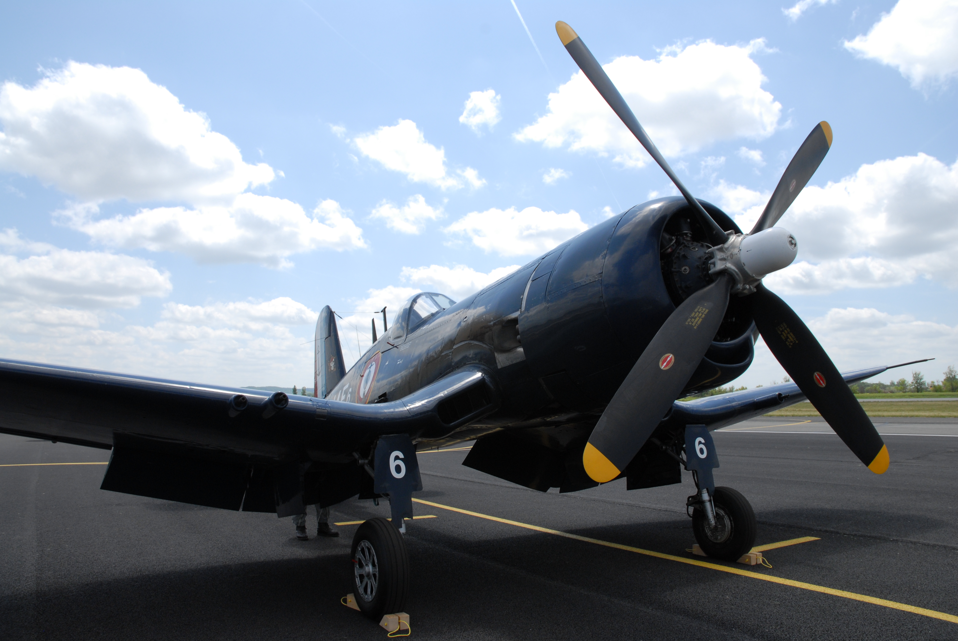 F4U-7 CorsairManufacturerChance VoughtModelF4U-7 CorsairTypemilitaryCharacteristicscarrier-based fighter. Former Argentinian F4U-5NL Bu#124541 modified in the F4U-7 standard with Bu #133704. French Navy's 14F wingRegistration IDF-AZYSOwnerSociété Civile Immobilière F 4 U CorsairBased inLe Castellet